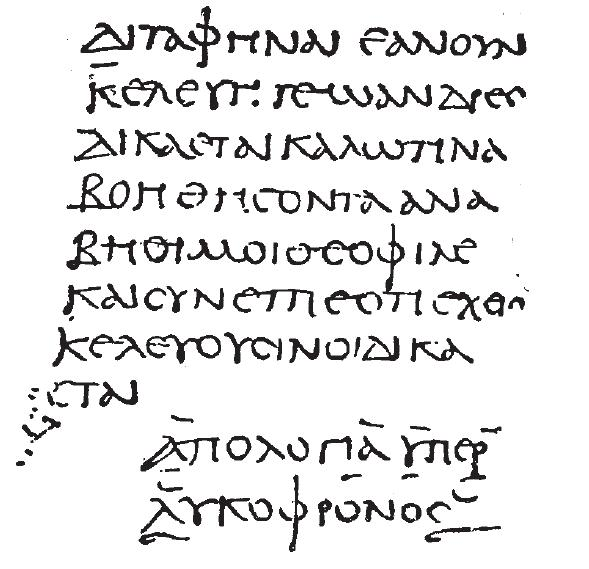 old greek papyrus